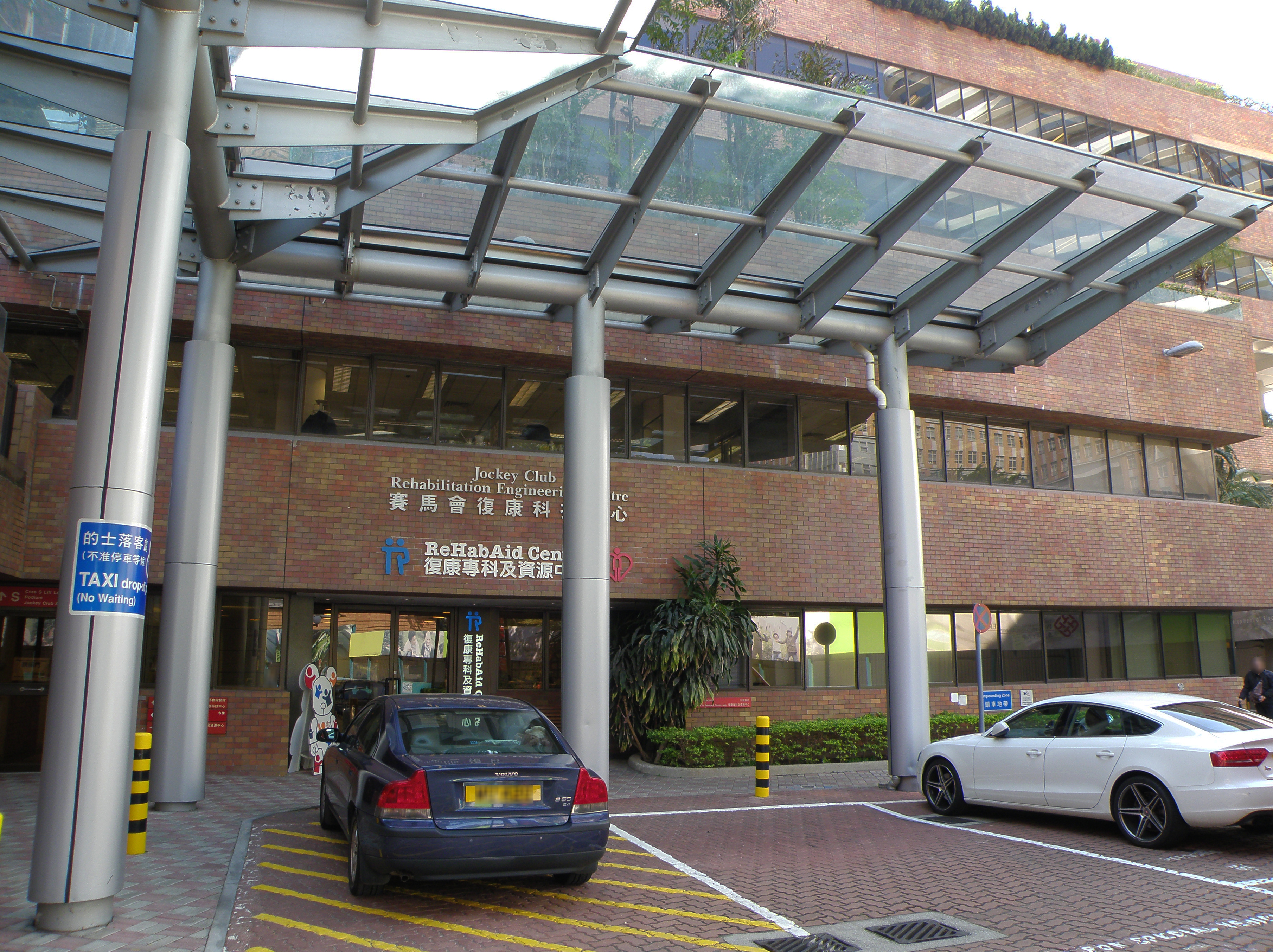 Rehabaid Centre in Hung Hom, Hong Kong.